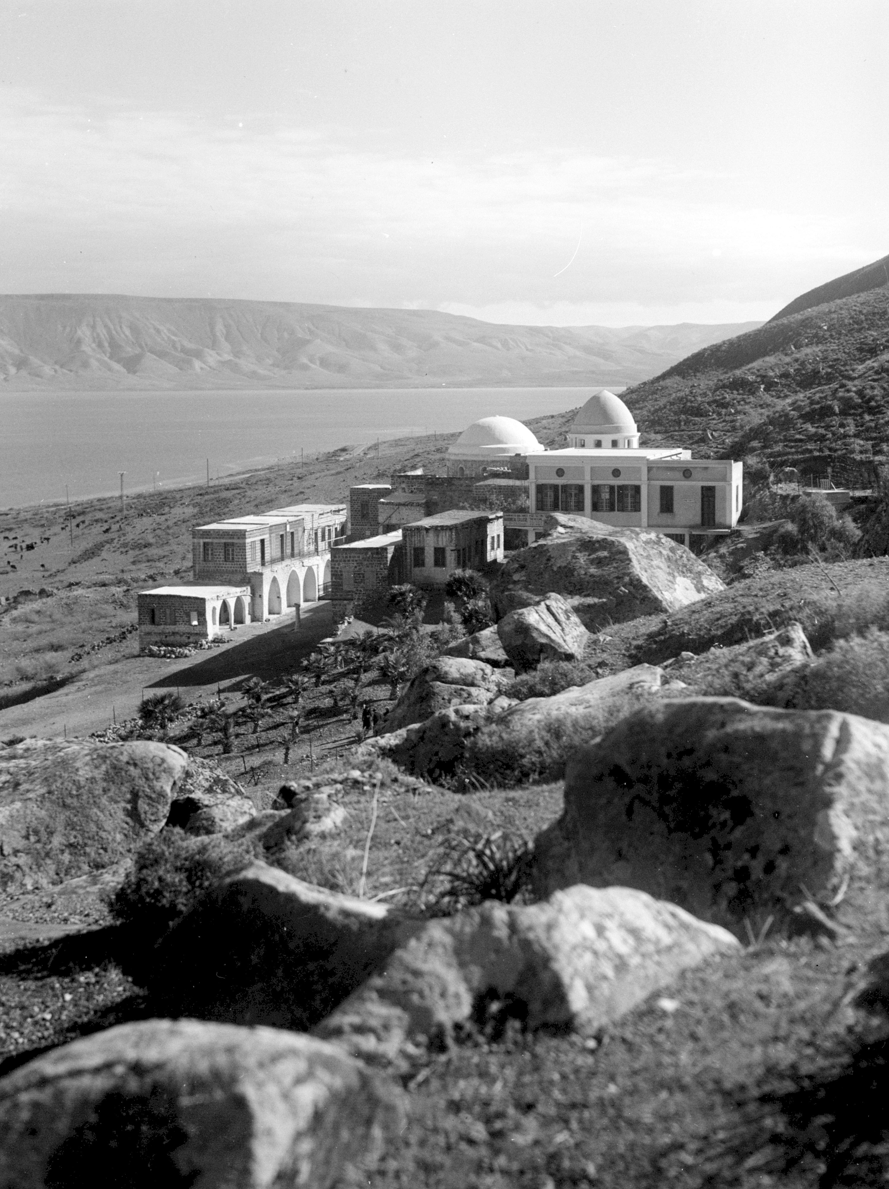 The tomb of Rabbi Meir Baal Haness near Tiberias.